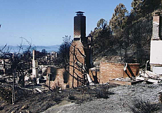 Destroyed homes left in the wake of the Oakland Hills firestorm.